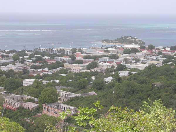 Christansted, St. Croix, looking northeast. Ruins of 19th Century Danish Hospital in foreground. Image taken by Clark Anderson/Aquaimages.